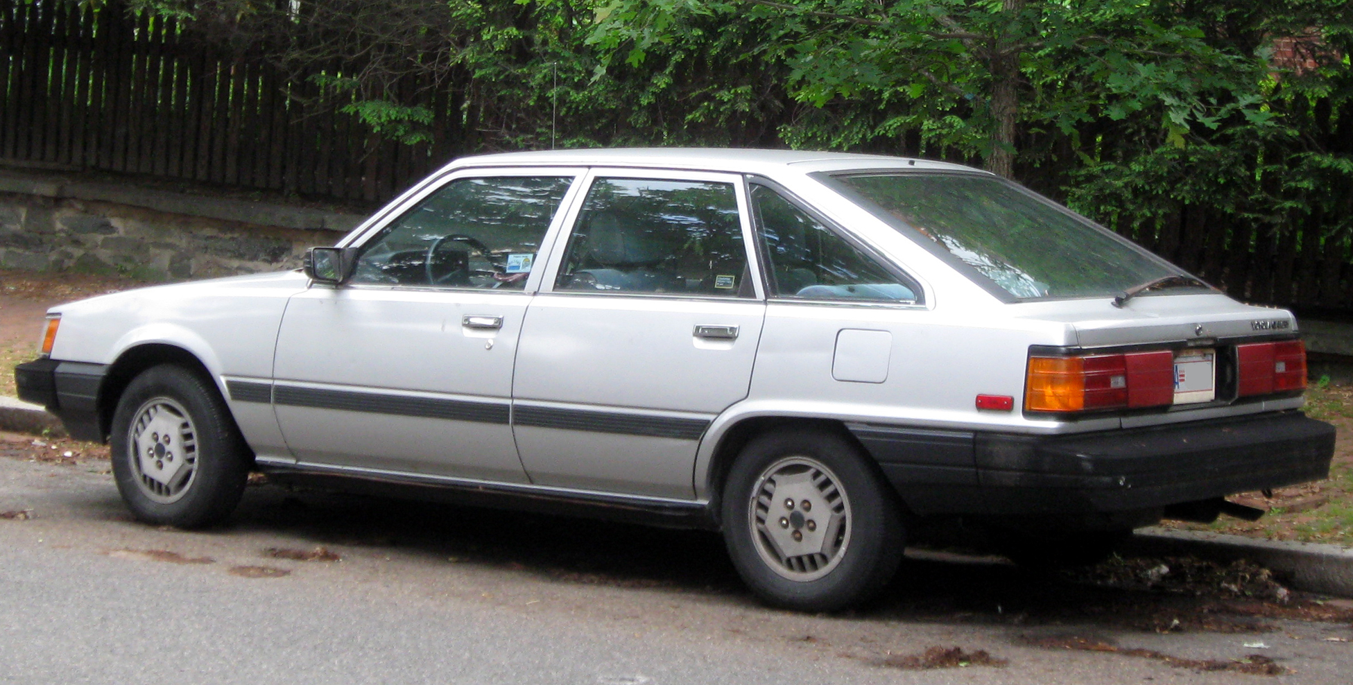 1985 Toyota Camry hatchback photographed in Washington, D.C., USA.